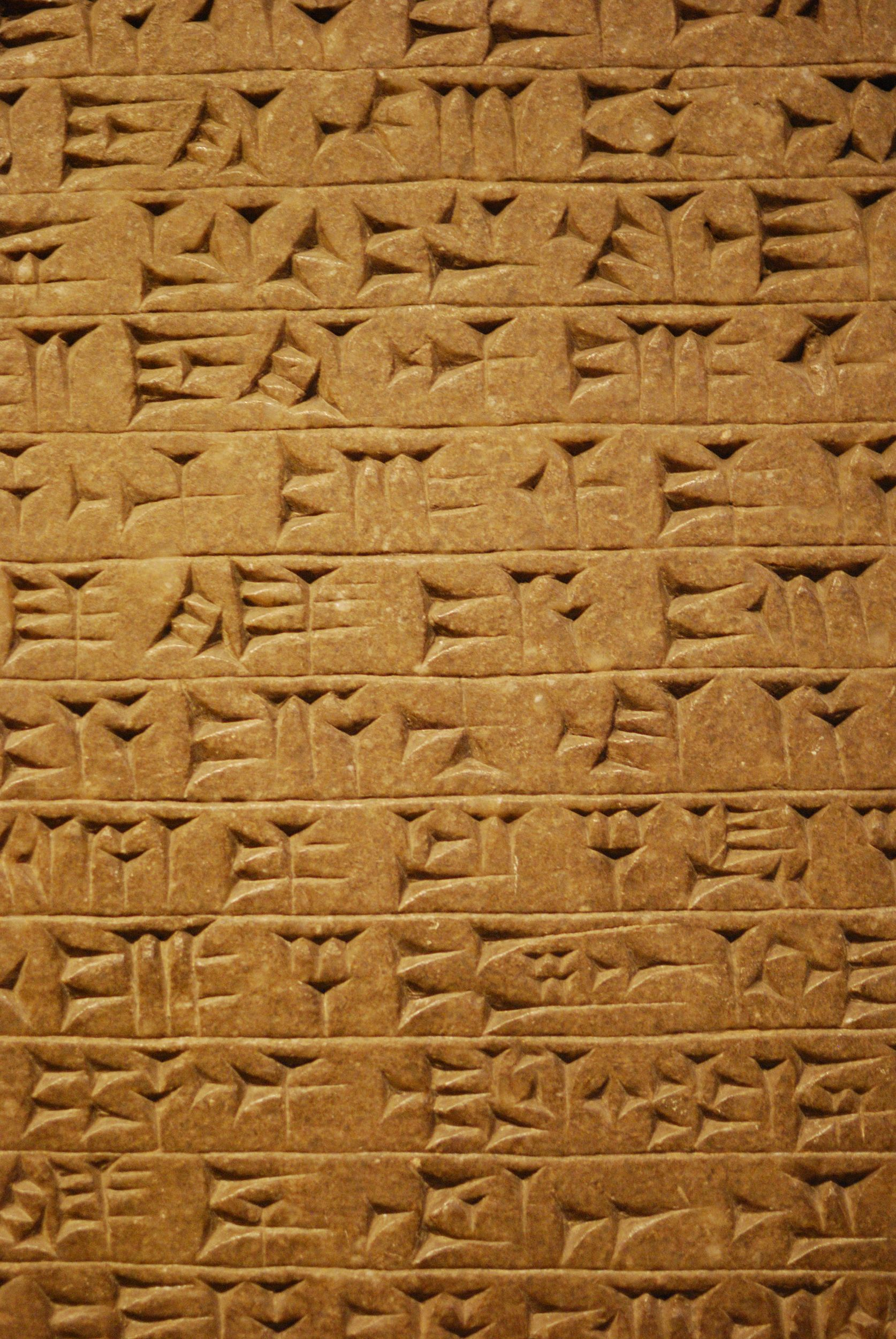 British Museum, Assyrian collections (Room 10) (Cuneiform signs, by line): Line 0 (half-line) 1. id(or it) 2. te, la 3. id/it, an, ú, ši(lim) 4. an, ú, ši(lim) pa 5. har, e 6. dan/kal, nu, te, a 7. pa, ib, šá 8. ú, šá, az 9. (nap + an(MUL)), ni(lí) 10. id/it, DÚ, hal, ra 11. (half-line)